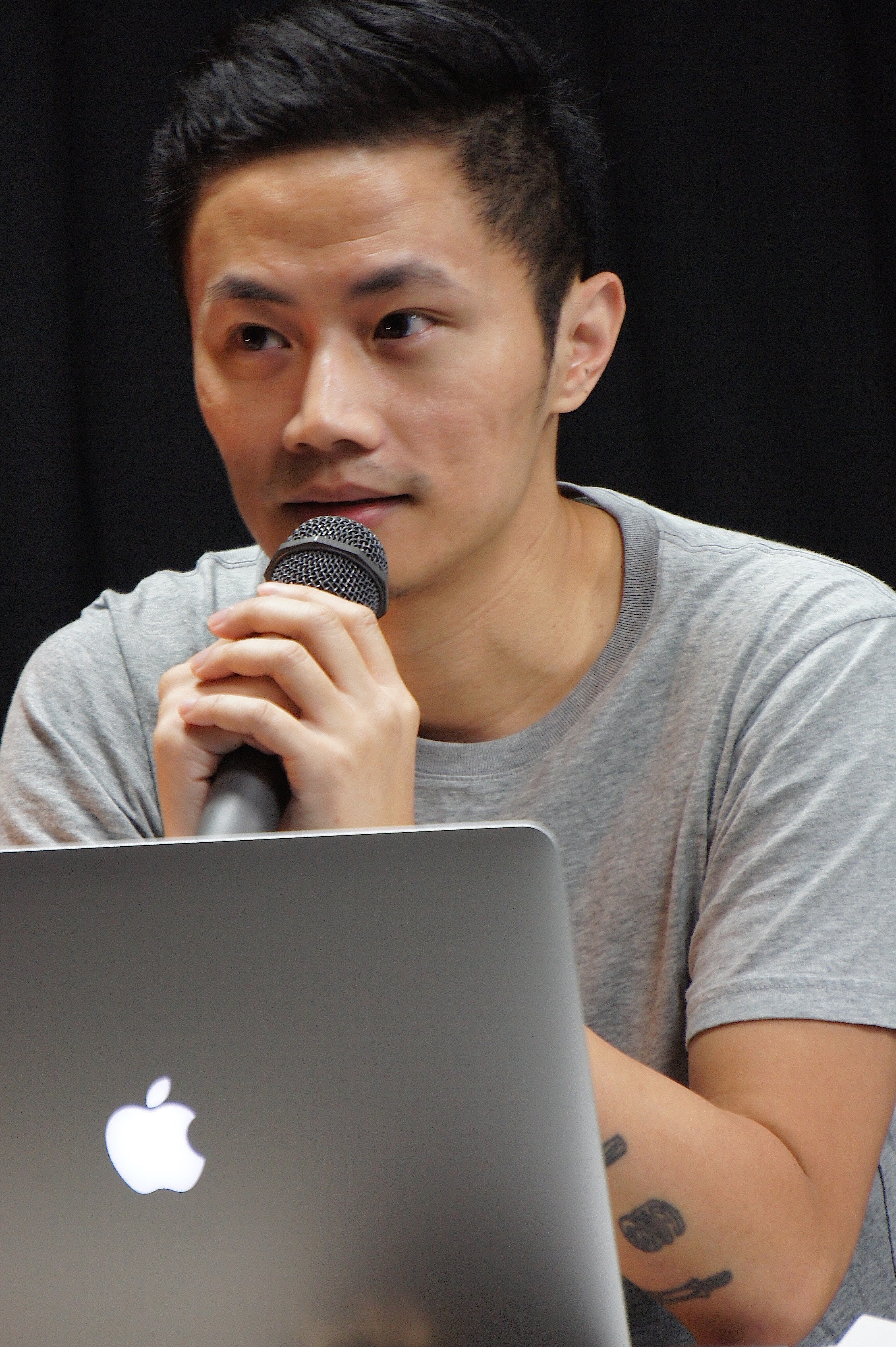 Aaron Nieh at a Symposium at the Tokyo University of the Arts, 2016